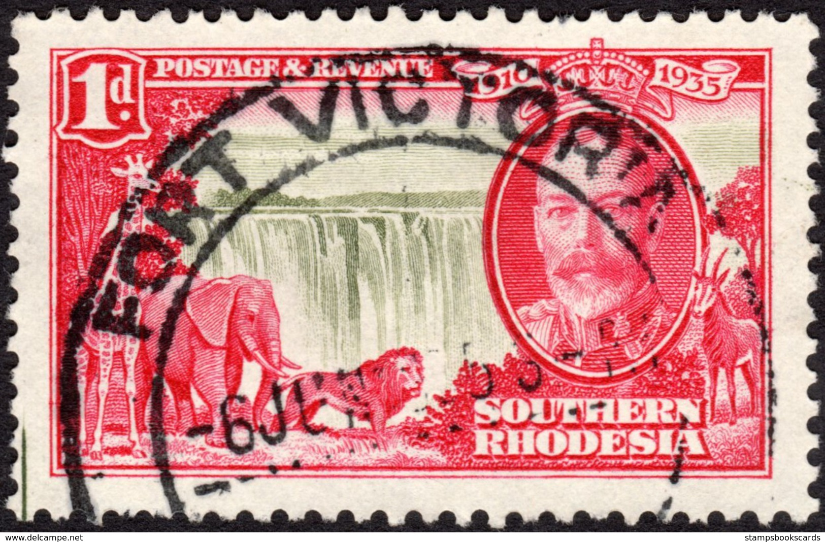 Southern Rhodesia 1935 1d Silver Jubilee stamp used Fort Victoria.